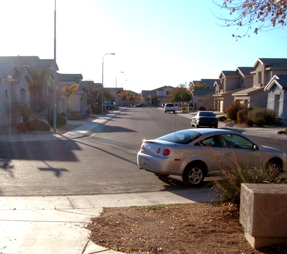 Photograph of my neighborhood in Chandler, Arizona, taken by me and modified using Photoshop.